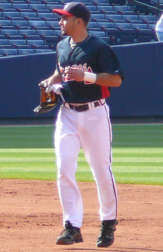 User:Chrisjnelson agreed to license this image of Omar_Infante.jpg under a free attribution license. Any use of this image must be attributed; this means that Photo by :en:User:Chrisjnelson|Chris Nelson should be in the picture caption. 22:16, 23 April 2008 . . Chrisjnelson . . 334×517 (188 KB)